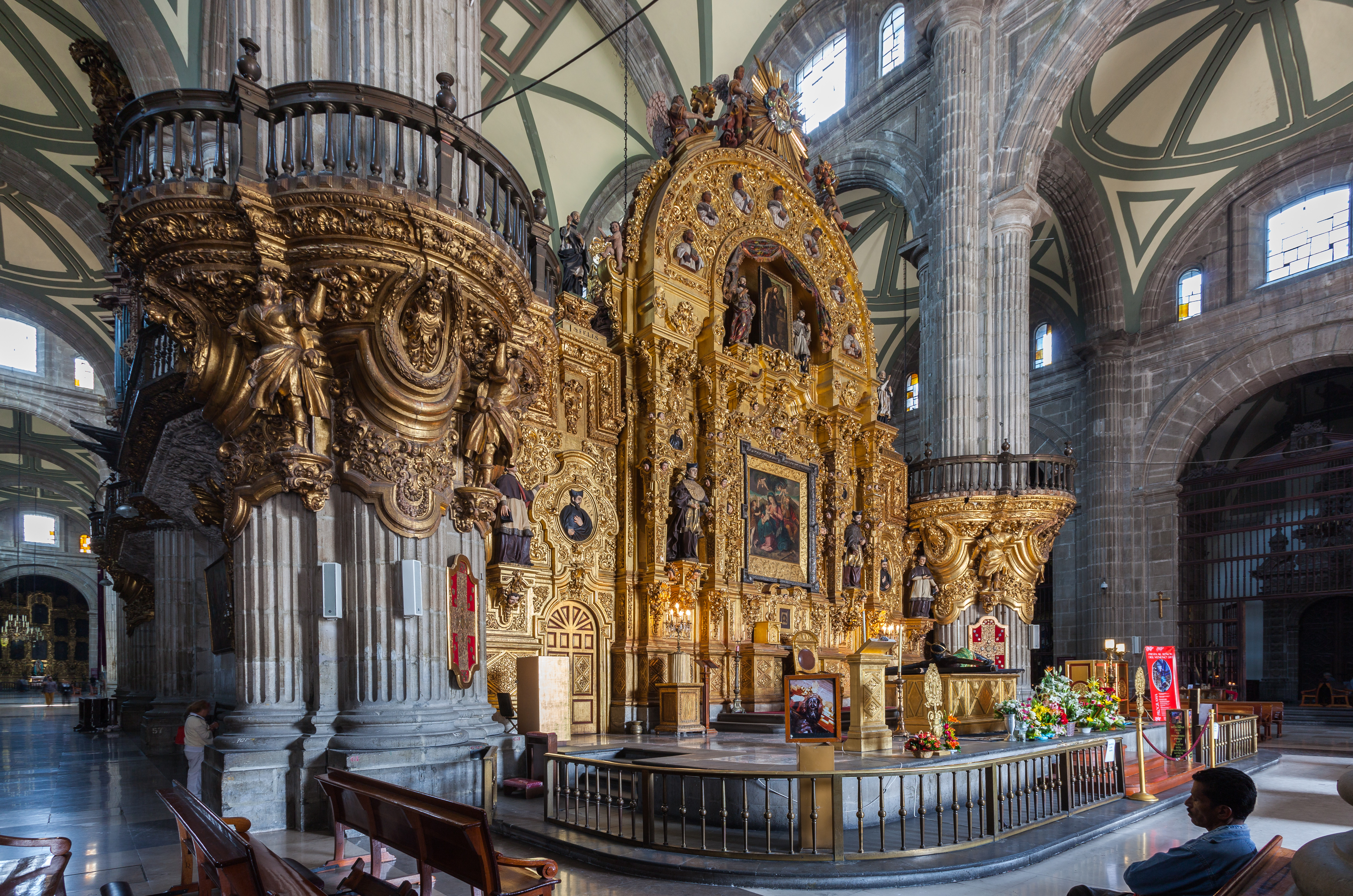 Metropolitan Cathedral, Mexico City, México